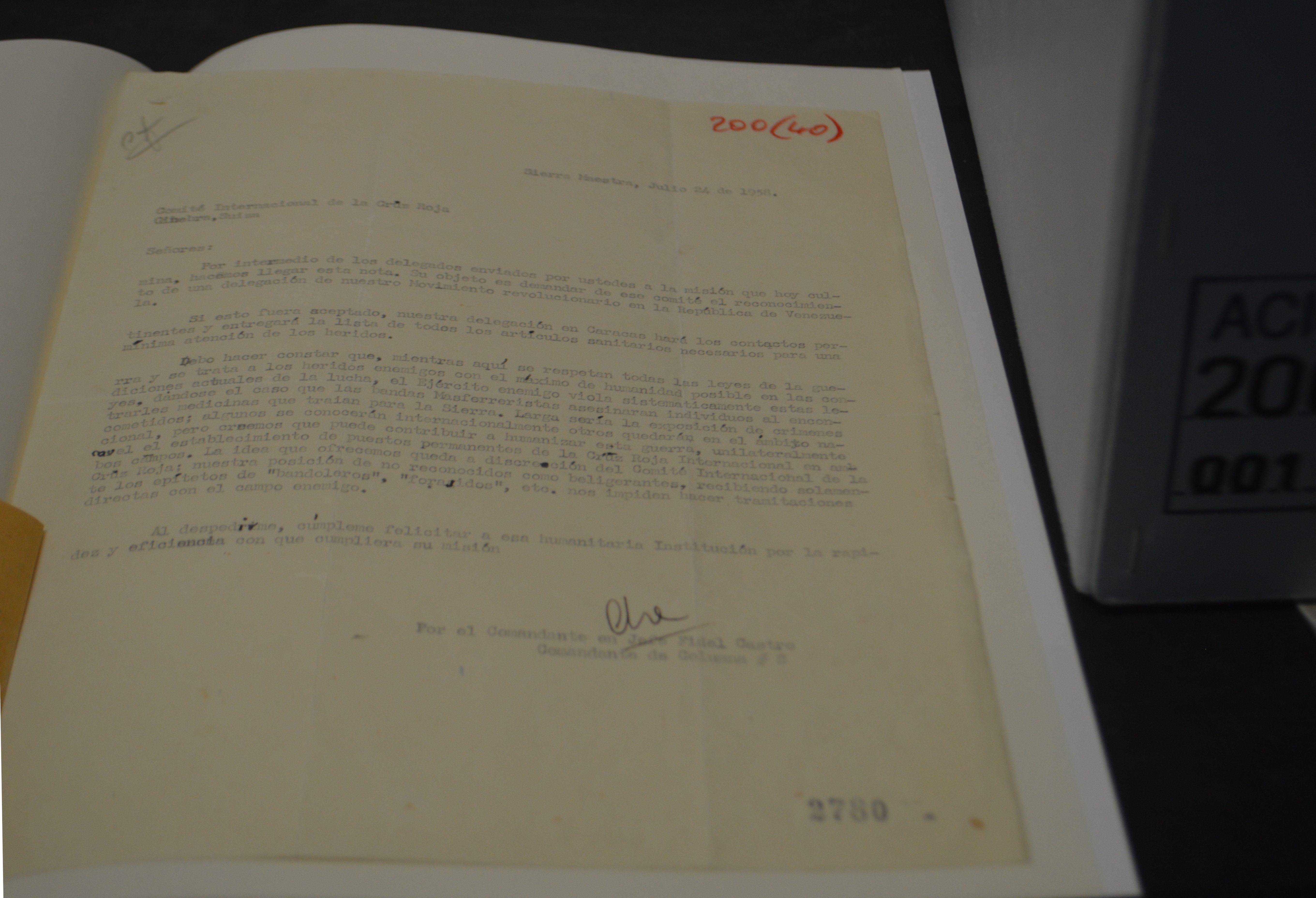 A letter from Commander Ernesto „Che“ Guevara on behalf of Commander-in-Chief Fidel Castro to the International Committee of the Red Cross (ICRC) in Geneva, dated 24 July 1958. It was written in the mountain range of the Sierra Maestra in southeast Cuba. Guevara, who signed as "Che", asked the ICRC to recognise the revolutionary movement as combatants and establish a presence, complaining about violations of the International Humanitarian Law (IHL) by the regime in Havana. - From the collections of the ICRC public archives (ACICR B AG 200060 | 001 - 008)- Photo taken and uploaded in the context of the International Archives Week 2020 of Wikimedia Switzerland, Austria and Germany and the Association of Swiss Archivists.